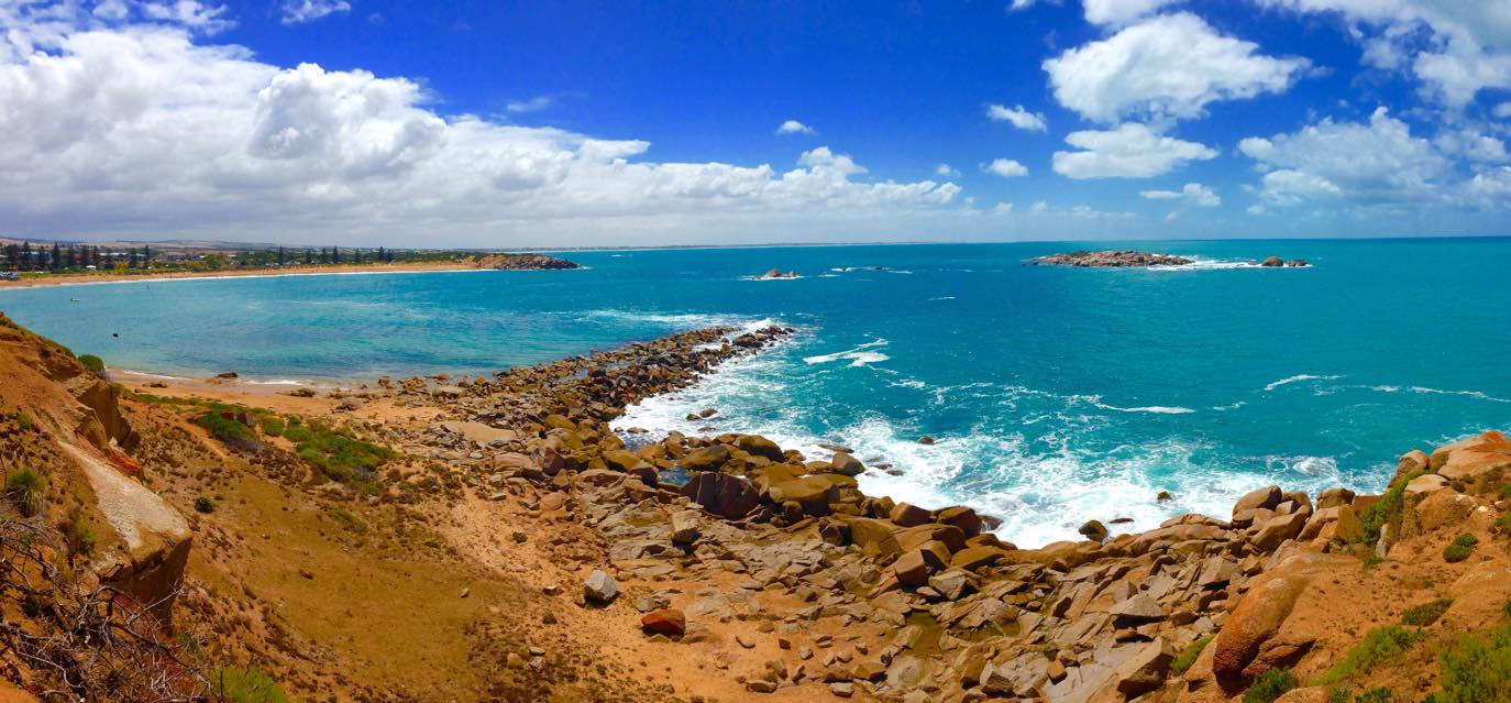 Horseshoe Bay Panoroma